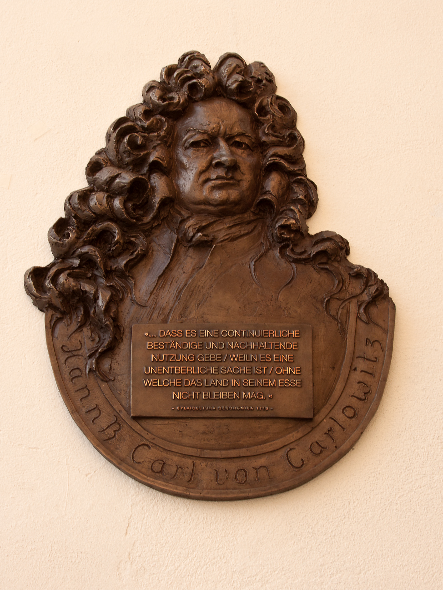 Hans Carl von Carlowitz (1645-1714), plaque in Freiberg, created by Bertrand Freiesleben